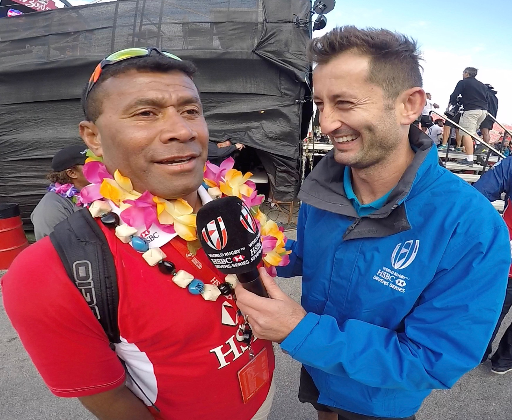 HSBC Sevens World Series with Waisale Serevi being interviewed by World Rugby commentator Dallen Stanford.